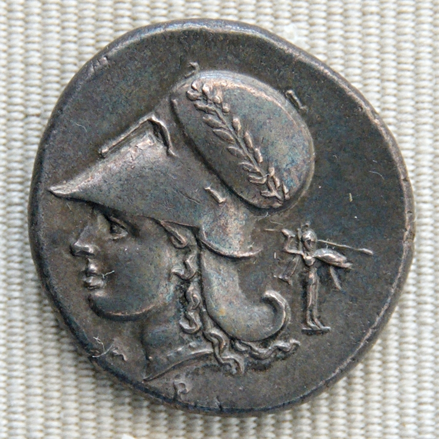 Silver tridrachm from Corinth, ca. 308–306 BC, reverse: helmeted Athena facing left; Athena Alkidemos standing, holding a spear and the aegis to the right.